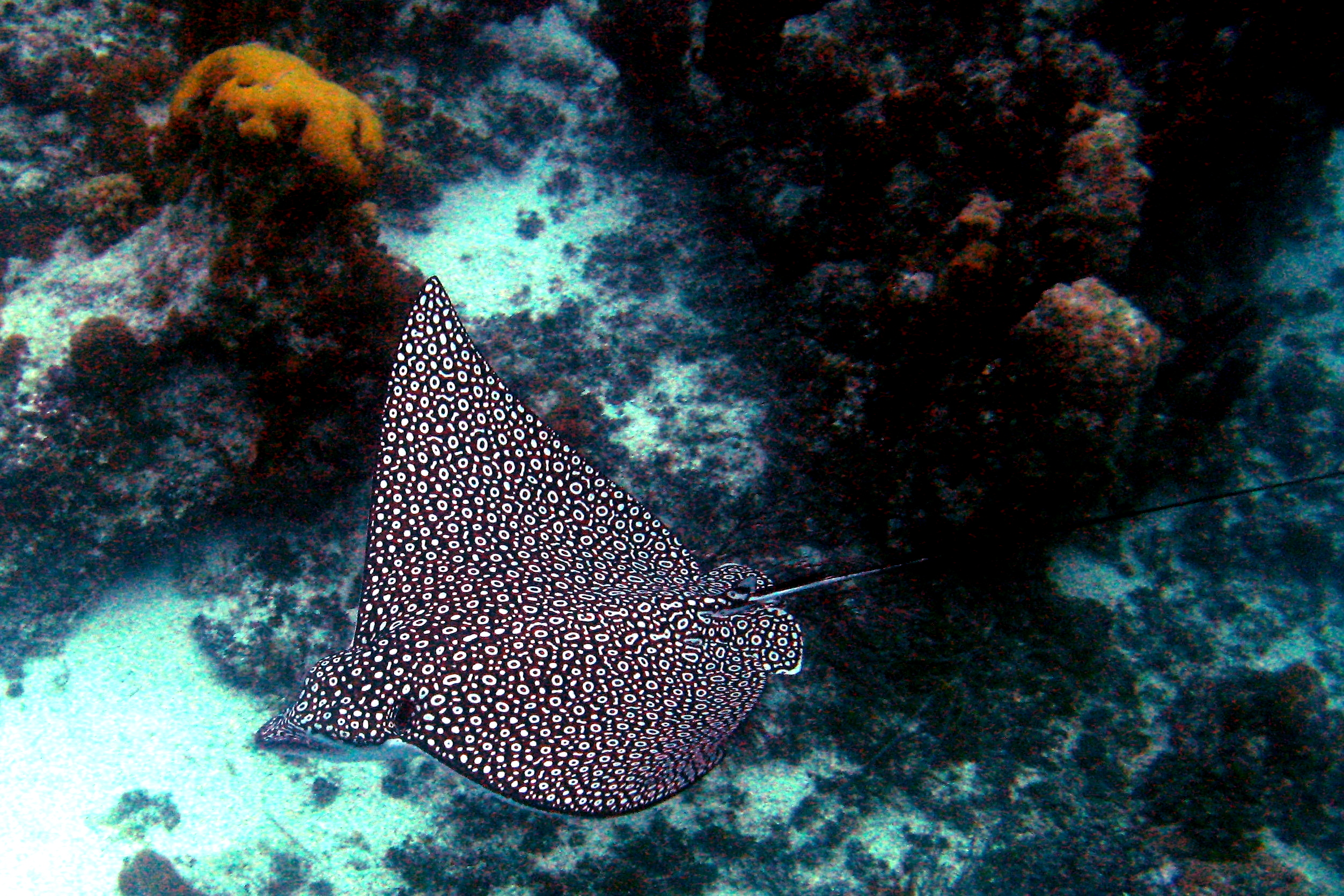 Spotted Eagle Ray picture taken with Canon G7 camera with underwater case while snorkeling at Princess Alexandra National Park (Coral Gardens), Providenciales, Turks and Caicos, on December 17, 2006. Eagle Ray was located approximately 50 feet from shore in 20' deep water, spotted on 3 consecutive days. A ray with identical markings was spotted in the same location on December 25, 2007.